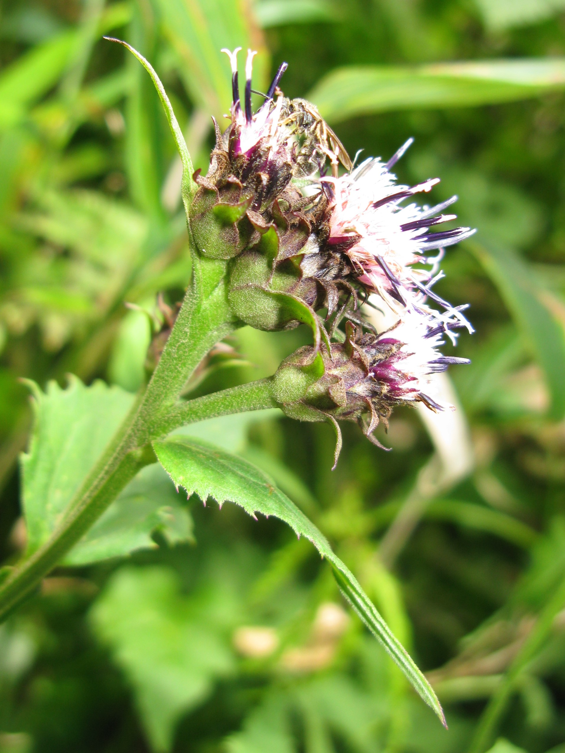 Saussurea nikoensis, Mount Nishi-Azuma, Fukushima pref., Japan